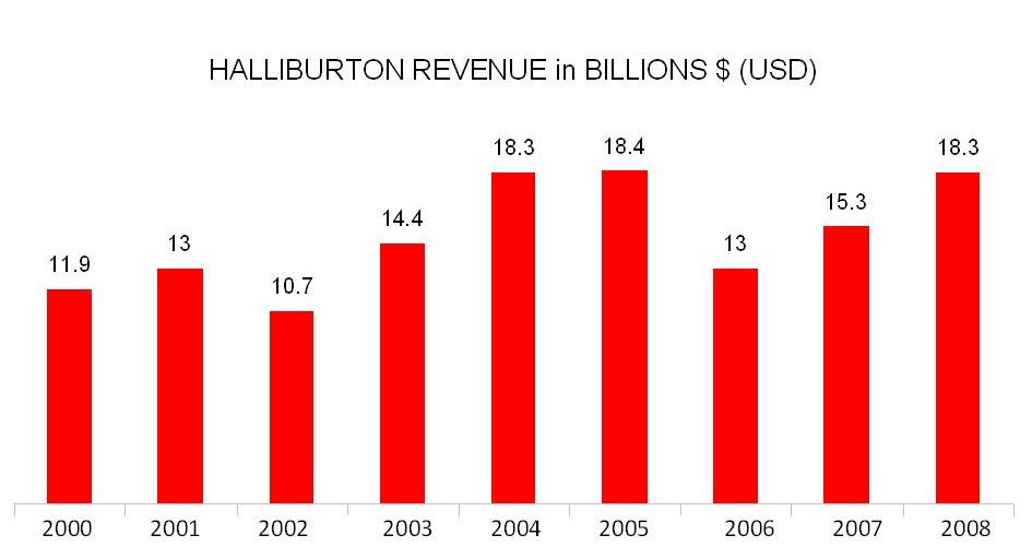 Halliburton Annual Revenue